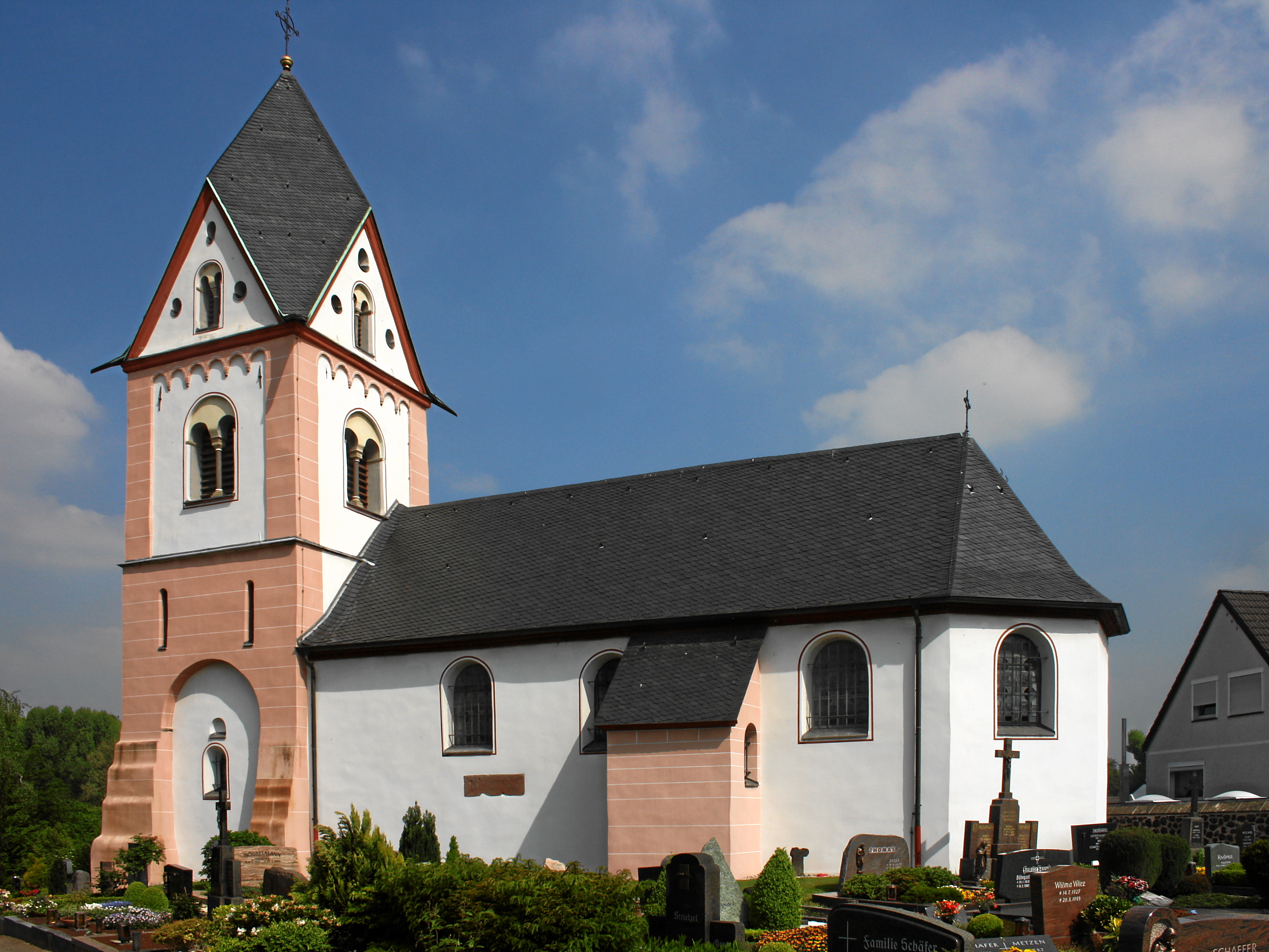 Köln-Porz-Zündorf, Germany. Roman-catholic chapel Saint Michael, exterior view from South.